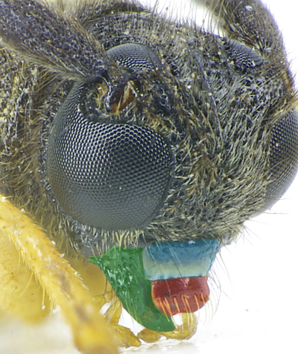 Oberea linearis detail of head, partly colouredgreen:mandibel red:labrum blue:clypeus